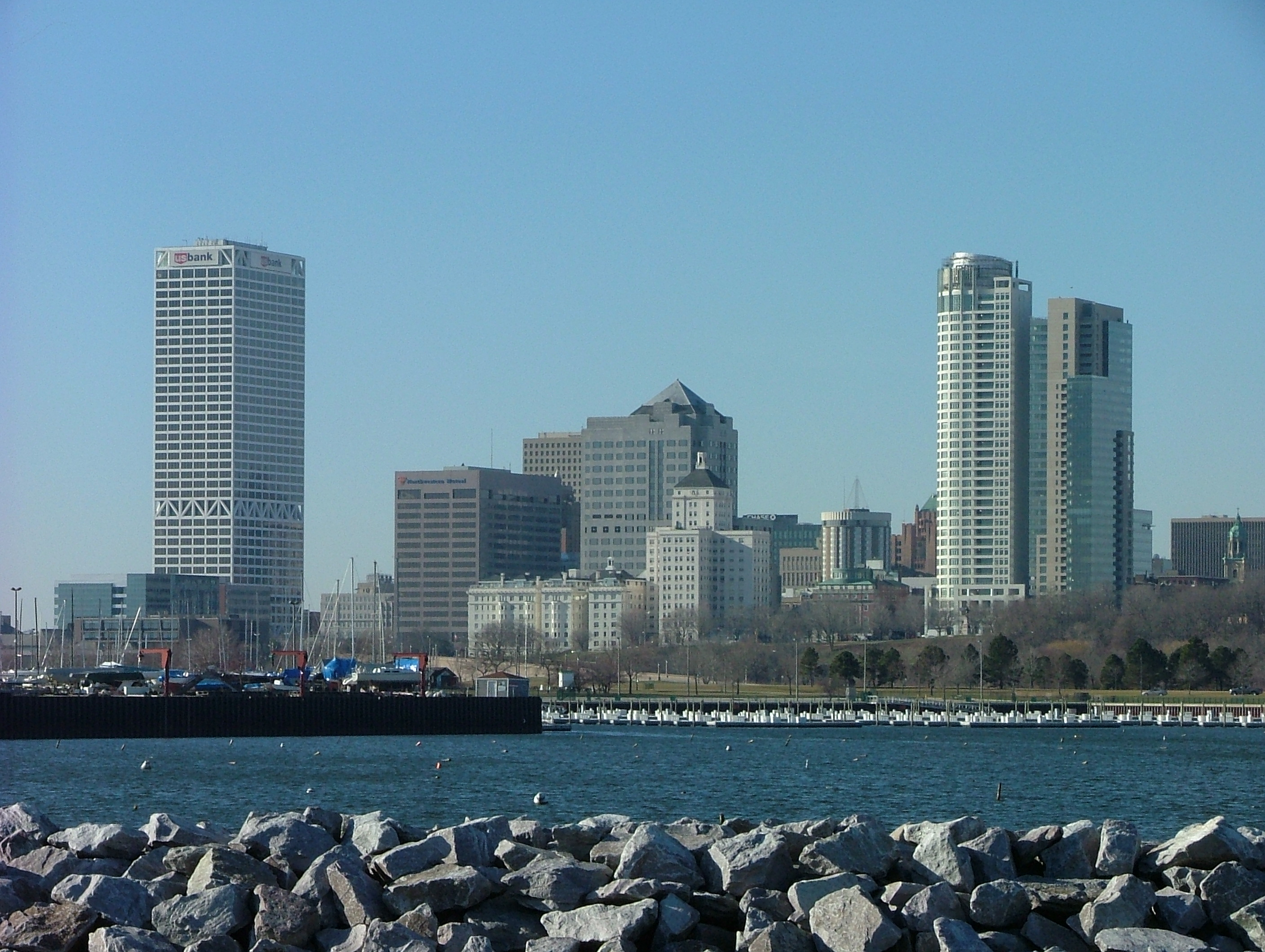 This is a picture of the Milwaukee skyline taken on January 3rd, 2007. I took this picture on the breakwall path on Lake Michigan at McKinley Marina.